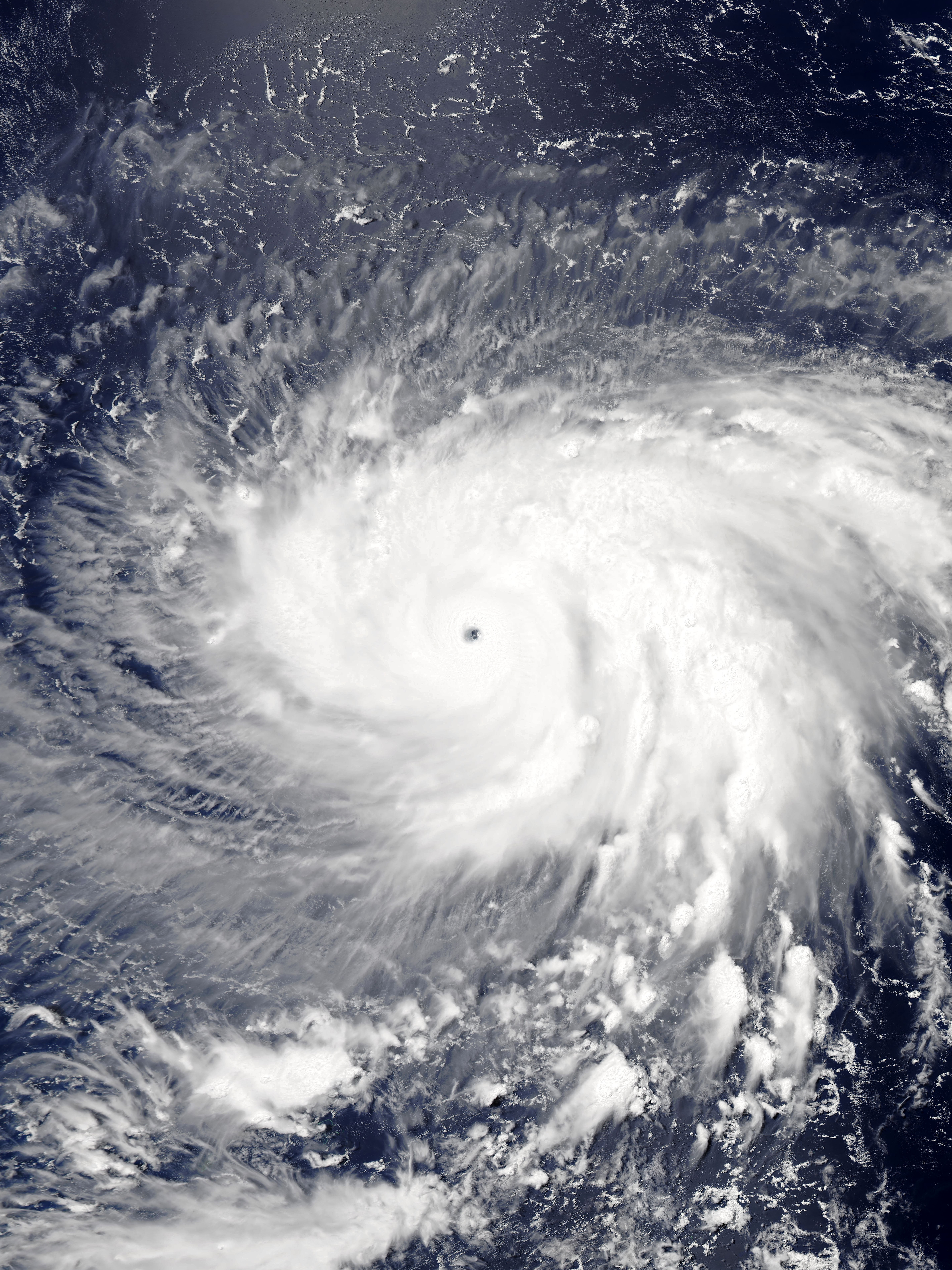 Typhoon Maria after the extremely rapid intensification and located to the northwest of Guam on July 6, 2018.